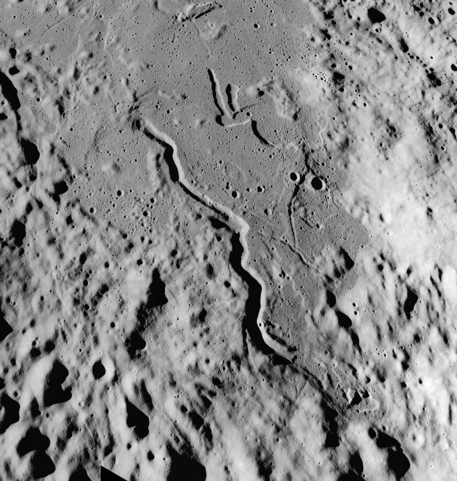 Rima Conon (Conon Rille), on the moon.